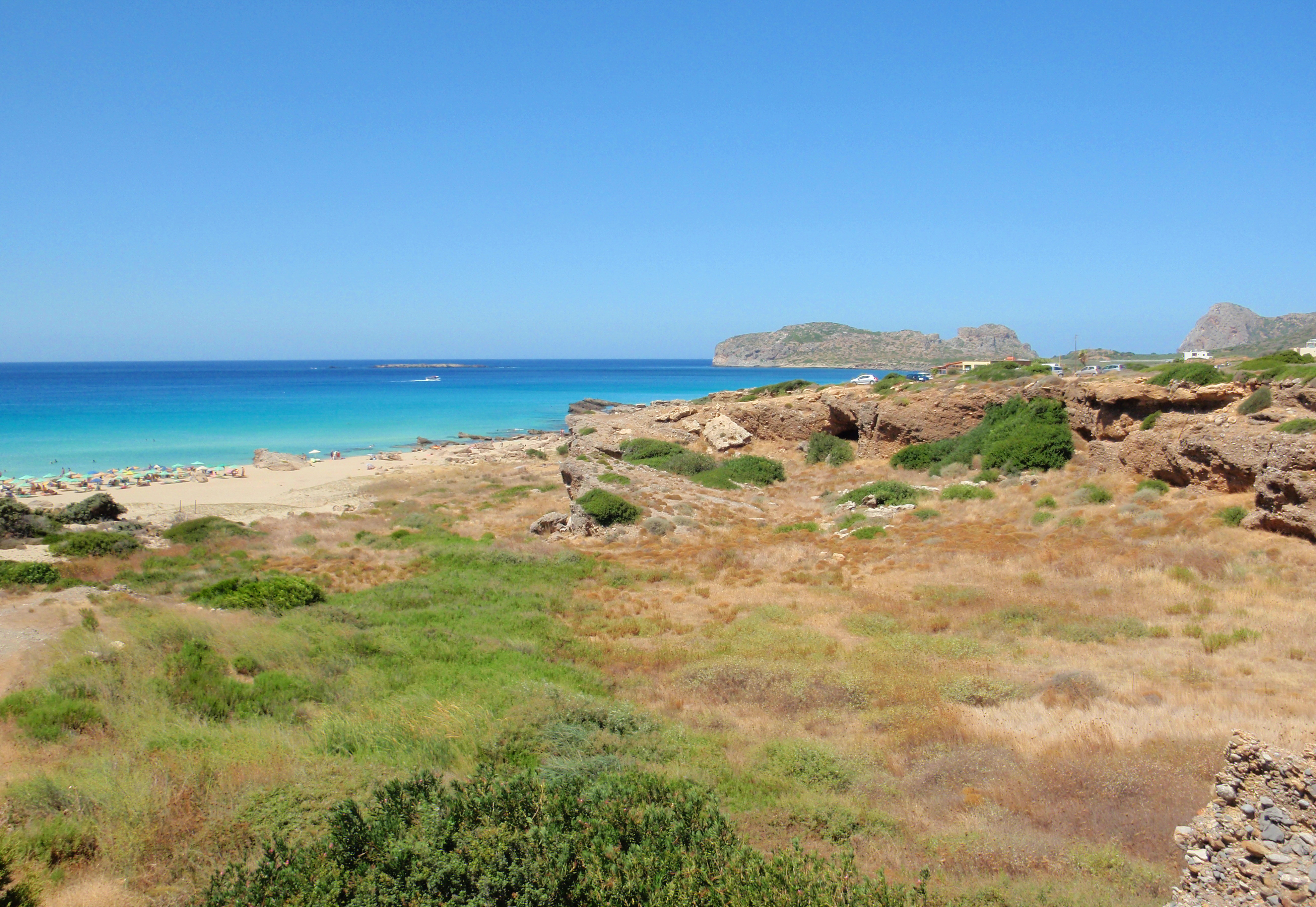 This is a photography of Natura 2000 protected area with ID GR4340001